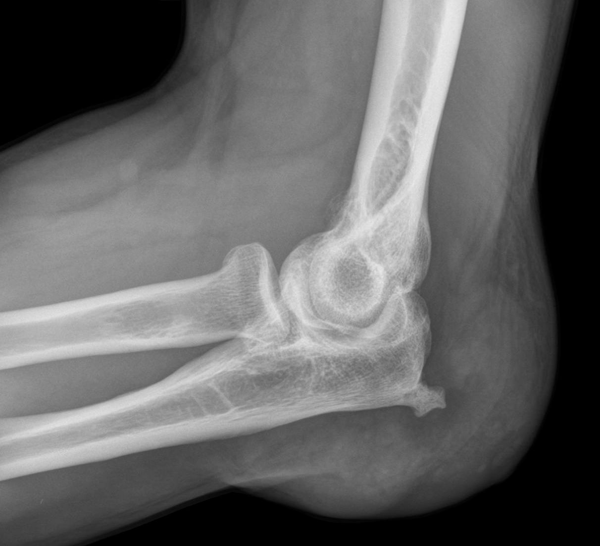 Bursitis olecrani with ellbow spur in X-ray